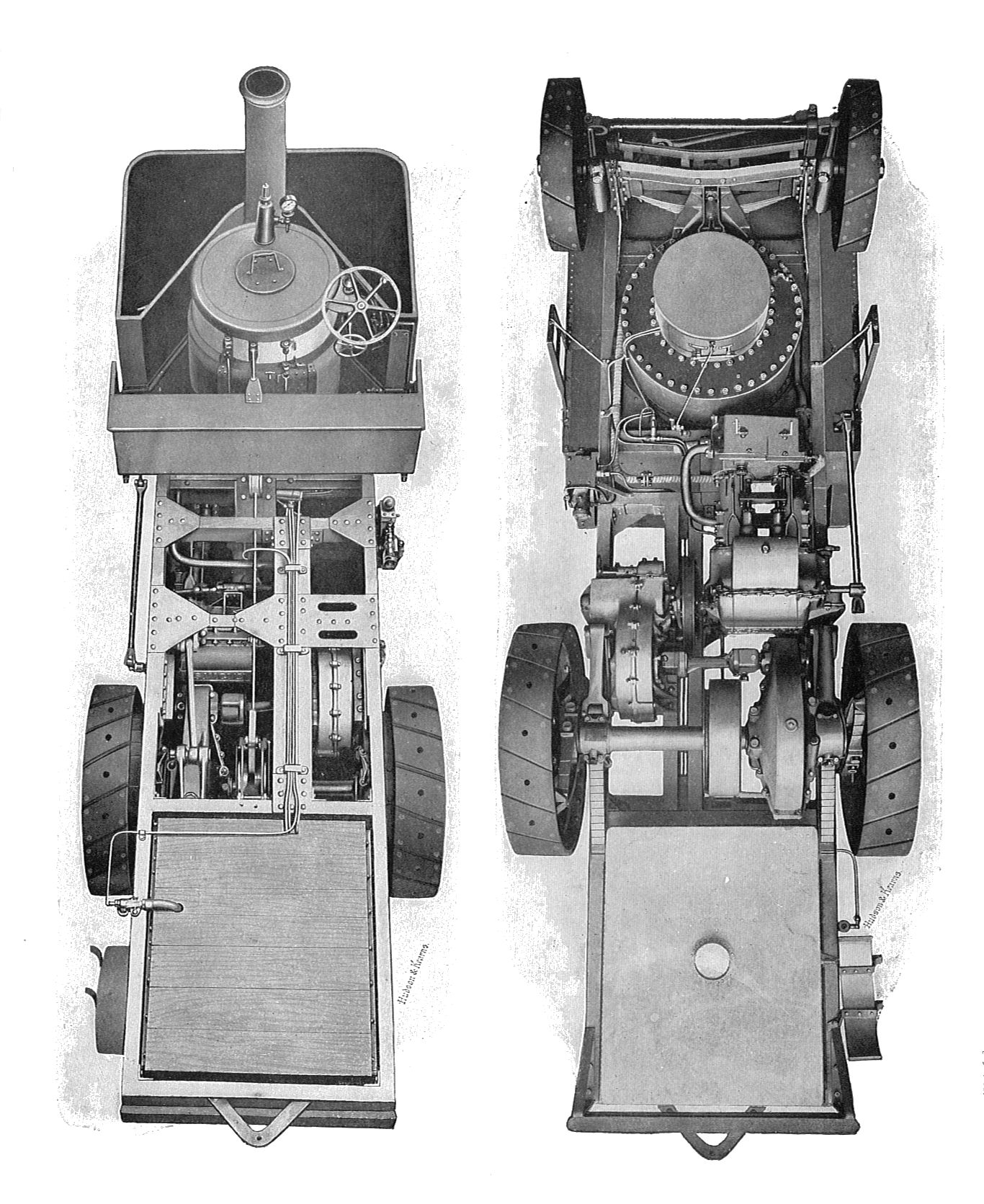 Thornycroft steam wagon, above and below (Rankin Kennedy, Modern Engines, Vol III).jpgThornycroft steam wagon